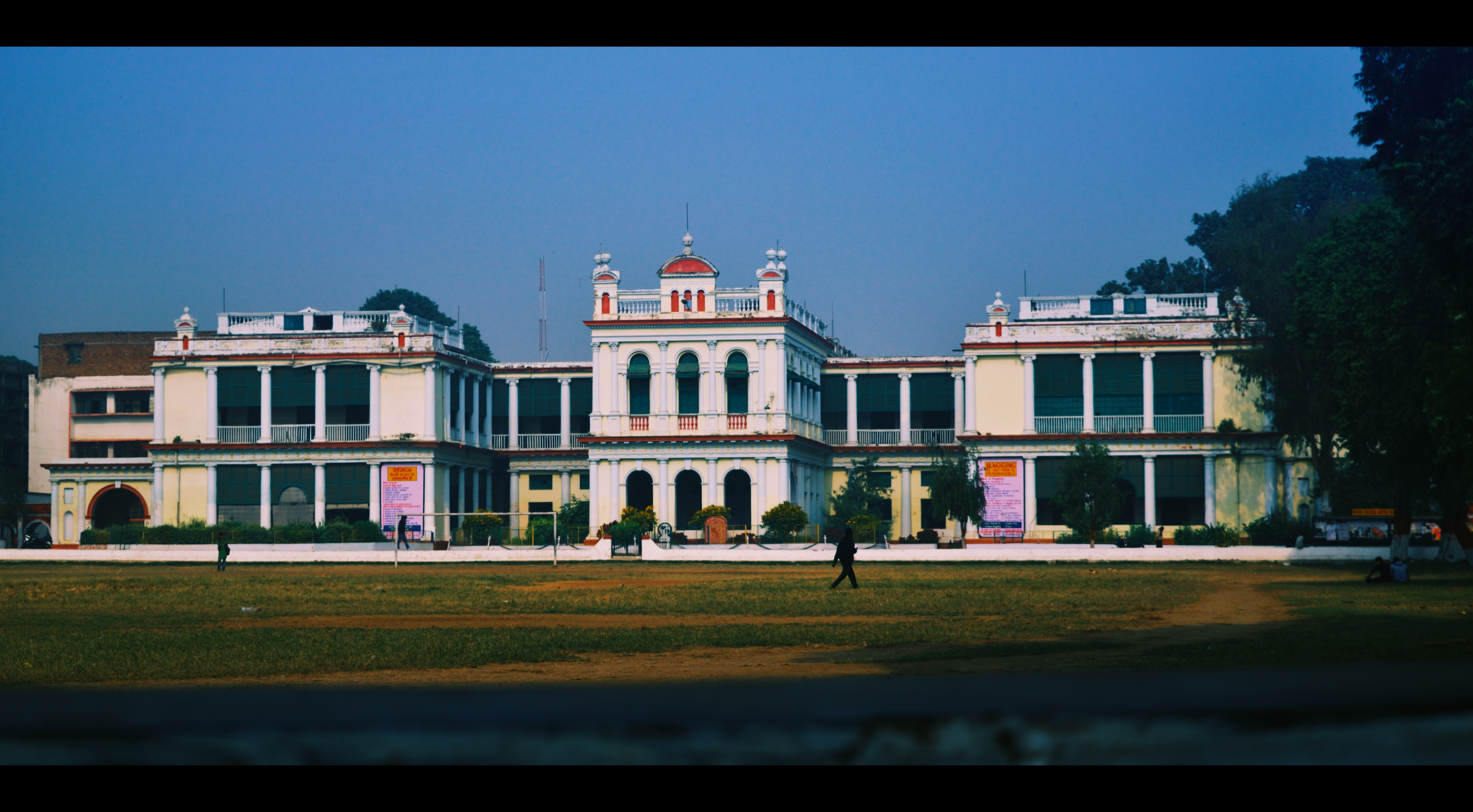 Wide Angle view of Patna College